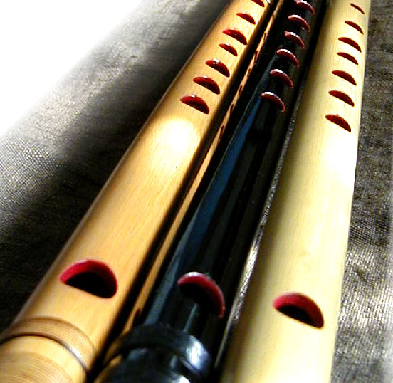 Impressive photo for document top 7-hole Uta-you Shinobue in Bb ("6-hon choshi") top binding 7-hole Uta-you Shinobue in B ("7-hon choshi") black painted 7-hole Uta-you Shinobue in C ("8-hon choshi") without binding Photo by Yasuhiko Sano, Nov 2005 URL